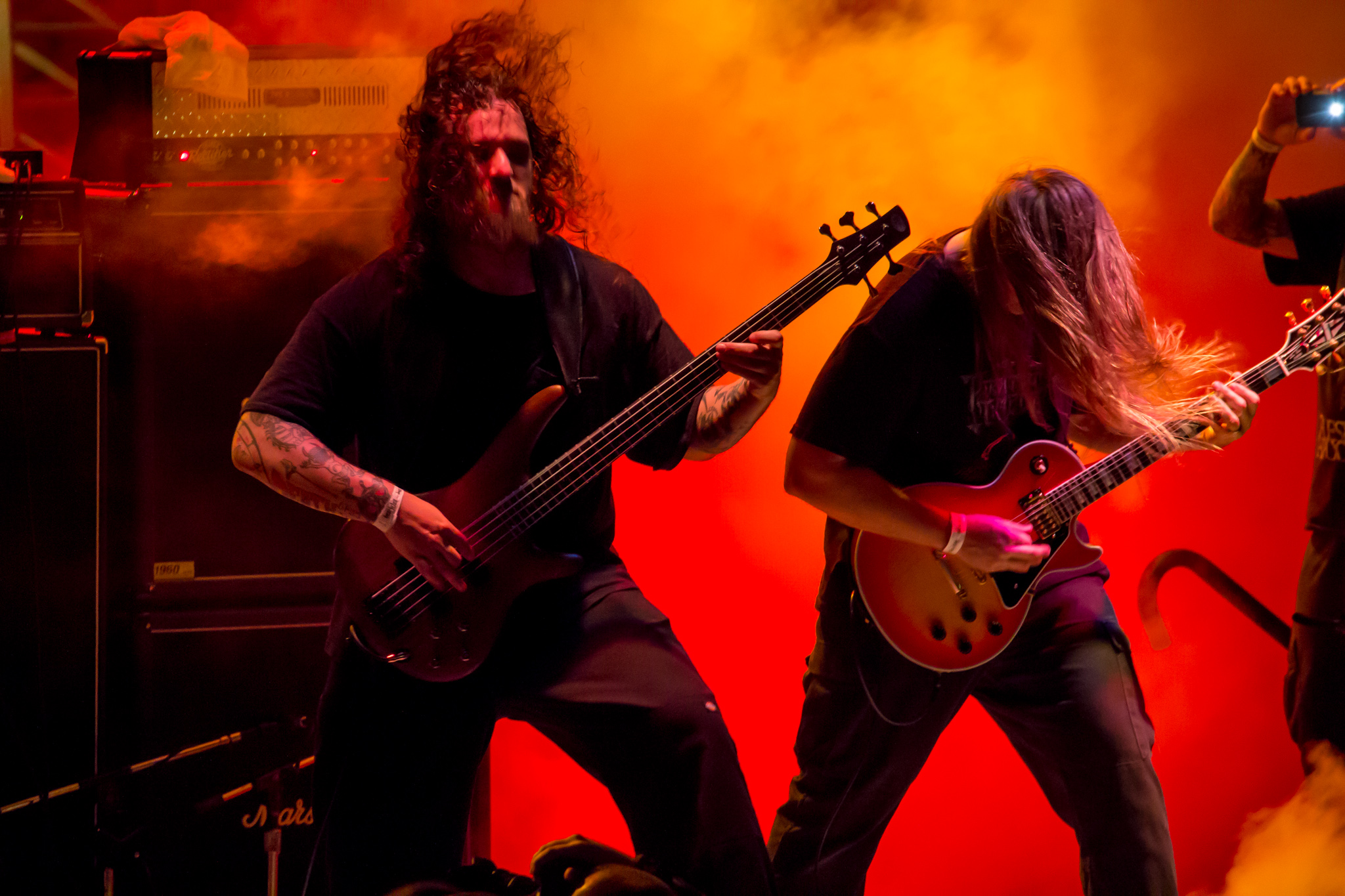 Monstrosity at the "Barge to Hell" Heavy Metal Cruise